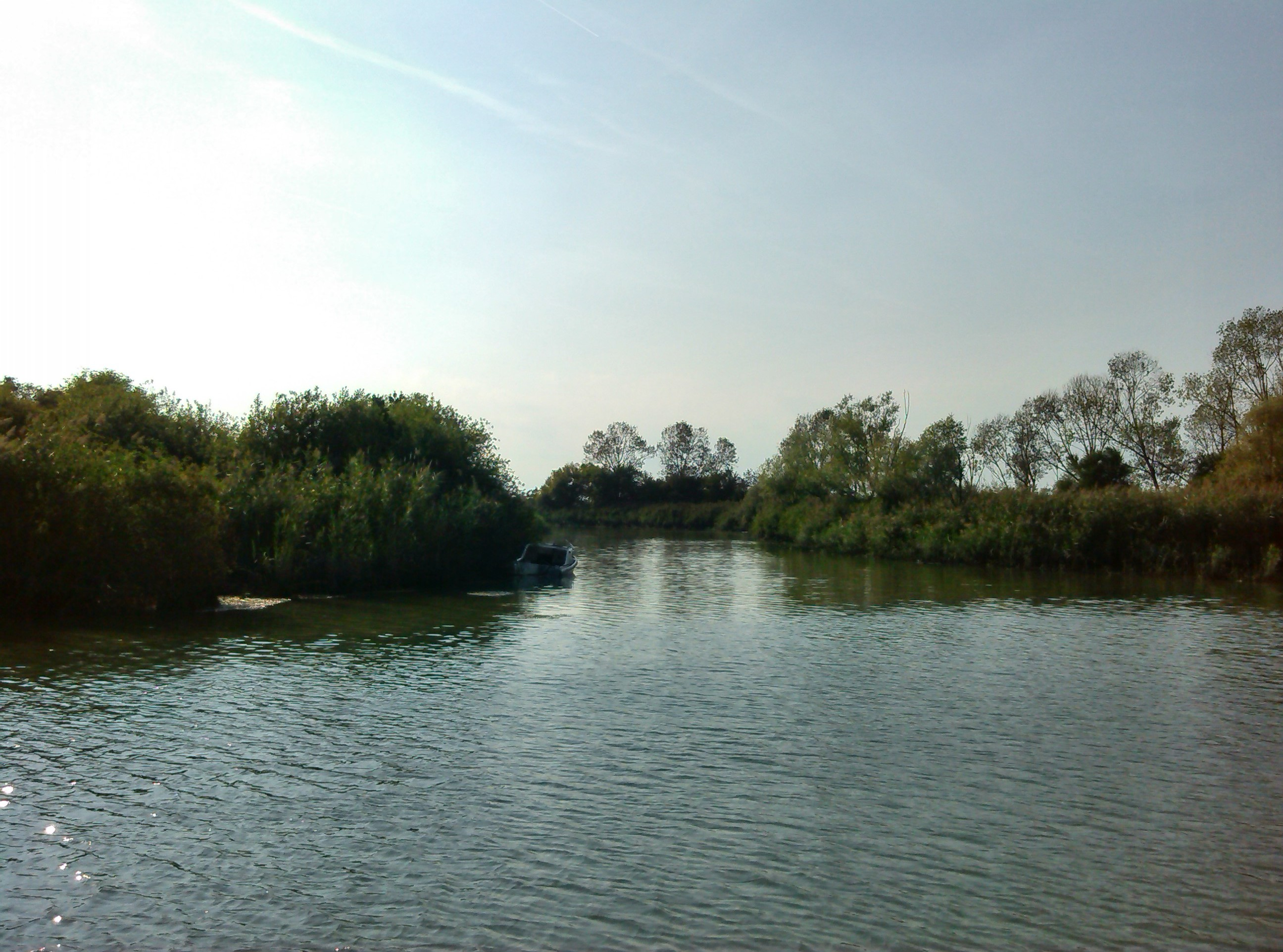 Anfora canal. Picture taken looking west from the left bank of Terzo river (Terzo river flows from right to left in the picture) Aquileia, Italy